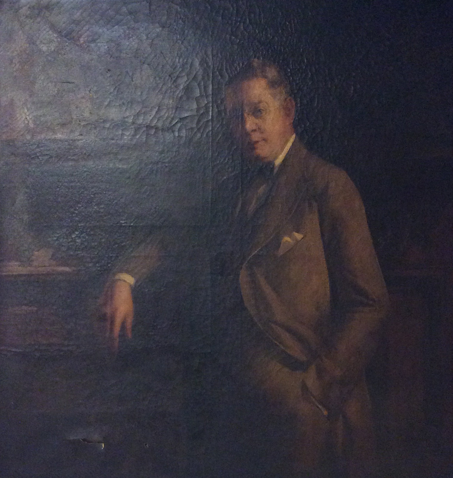 Albert Oldfield Brown portrait